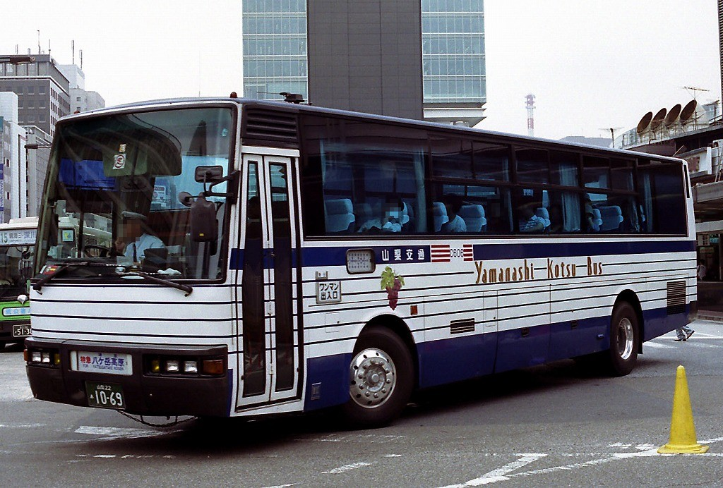 Yamanashi Kotsu Isuzu Super Cruiser (P-LV719R) highwaybus "Tokyo stn.-Kiyosato,Yatsugatakekogen"